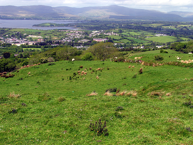 Pasture at the Viewpoint. This field in the foreground is at the viewpoint marked on the map. The town of Bantry is visible in the distance, in the valley. The harbour and town centre is to the far left of the built up area.